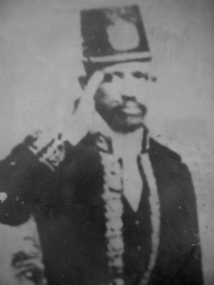 Habib Muhammad bin Yahya or better known as the title Prince Noto Igomo was an Indonesian ulama born in Hadramaut who became the mufti of the Sultanate of Kutai Kartanegara ing Martadipura during the reign of Sultan Aji Muhammad Alimuddin (1899-1910).